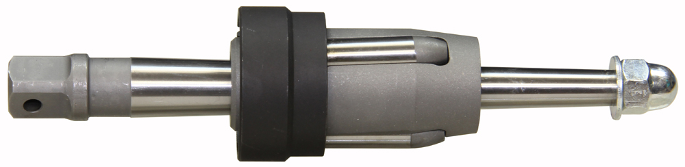 К-43-44 tube expander. With fixed reach (for tubes ID 43 - 44 mm)